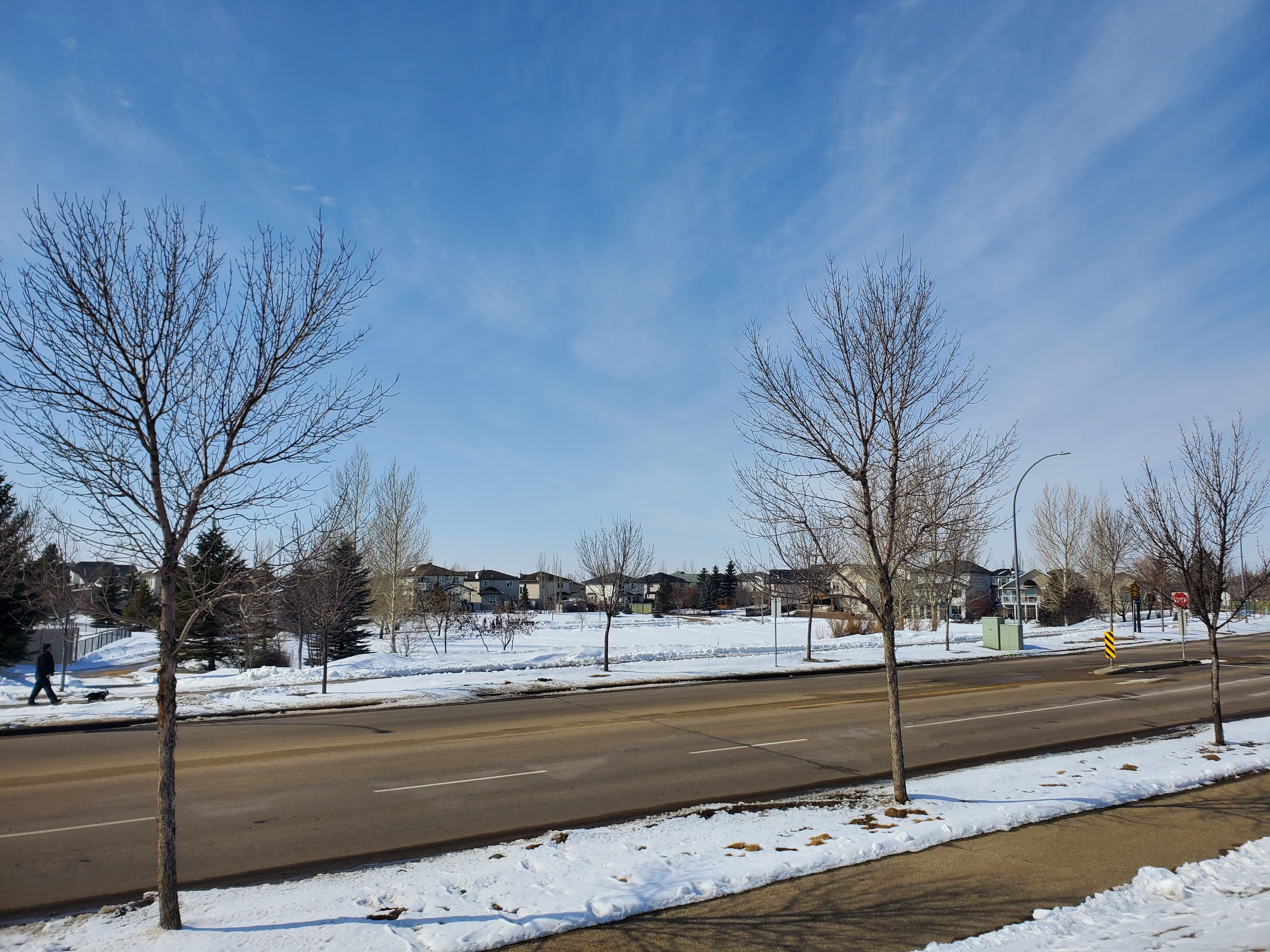 Fort Saskatchewan's Westpark neighbourhood